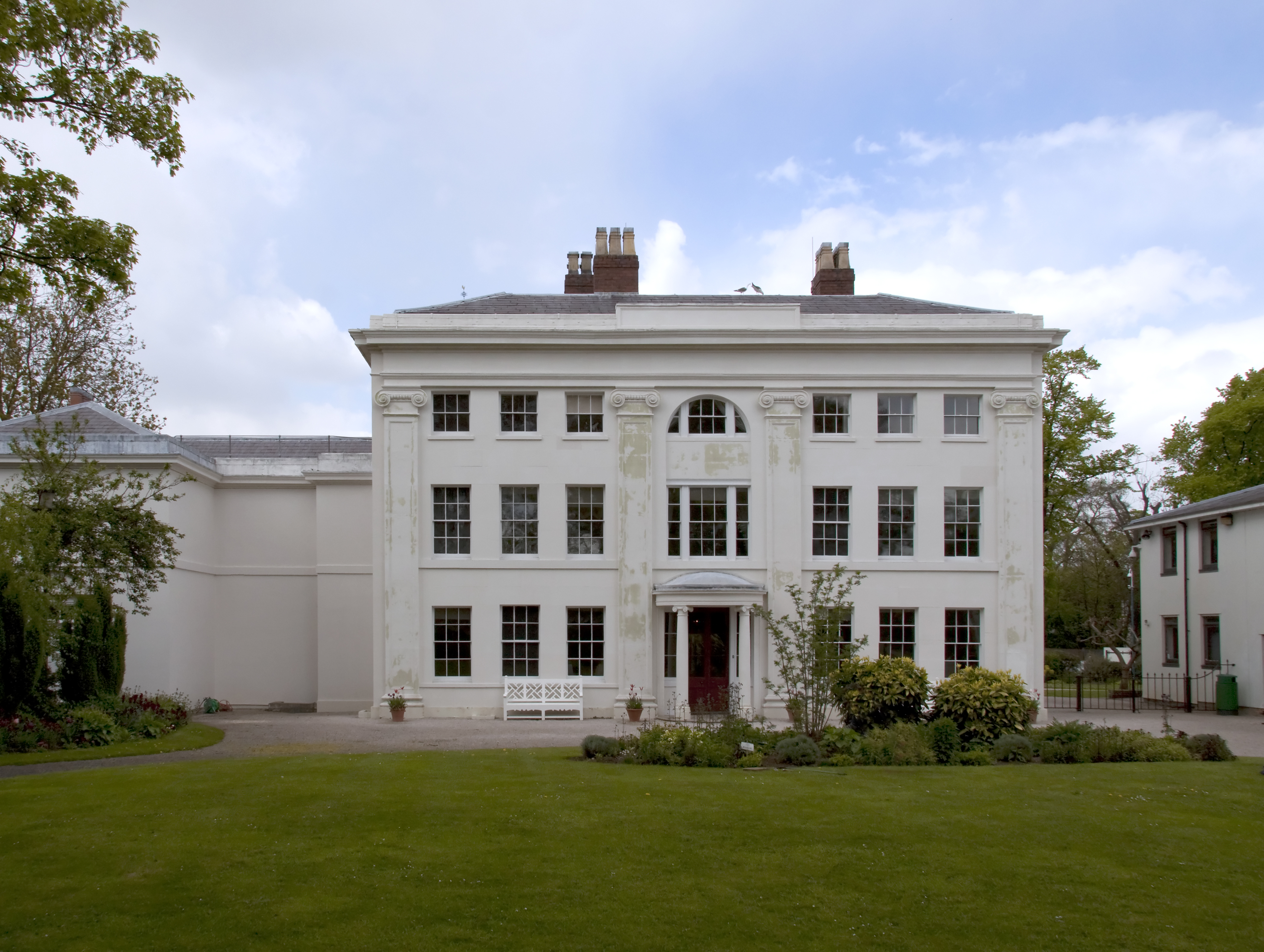 Matthew Boulton's home aka Soho House was also the meeting place of the Lunar society.